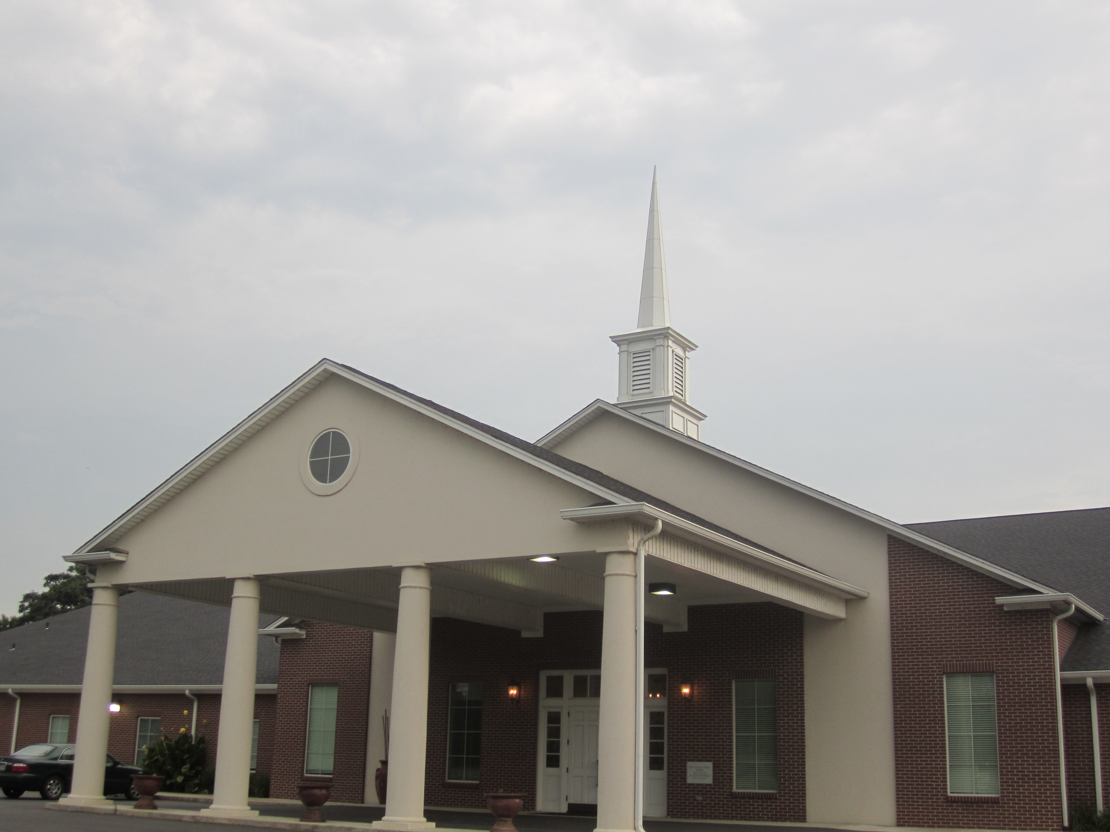 I took photo with Canon camera in Wisner, LA.